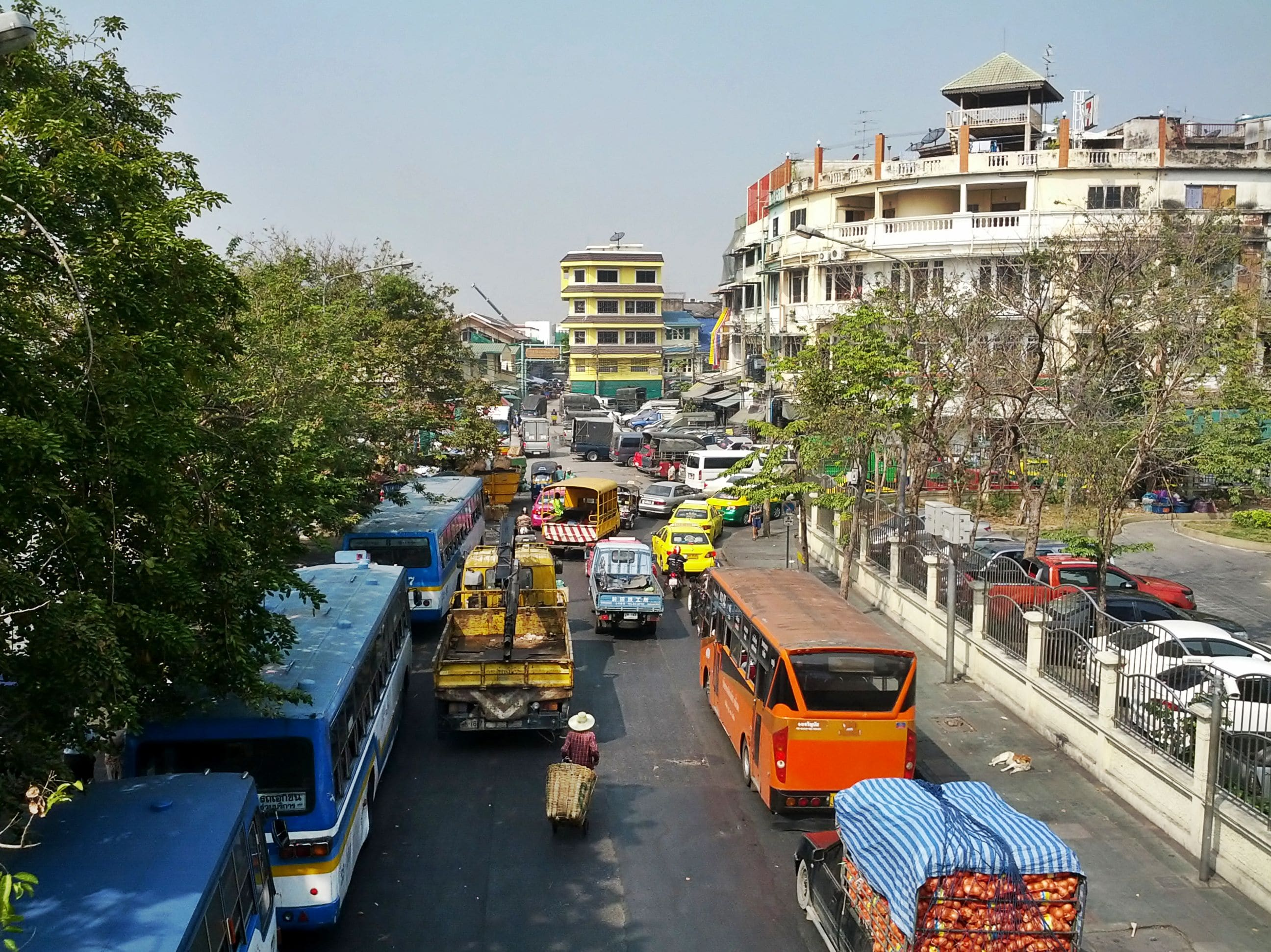 Bangkok’s Chinatown, Thailand